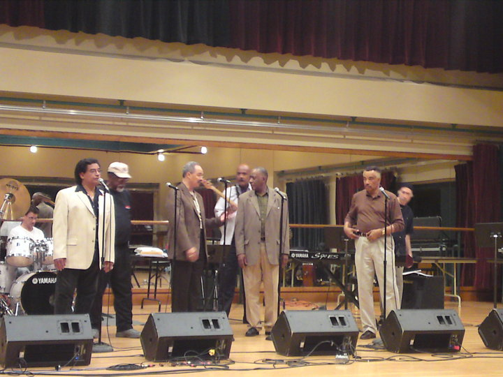 The doo wop band from New York called The Cleftones during their participation in the festival of this genre celebrated at the Benedum Center for the performing arts in Pittsburgh, Pensilvania in may 2010.